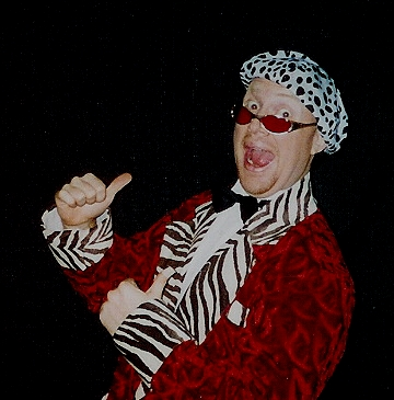 Kenny Casanova promo shot - free license